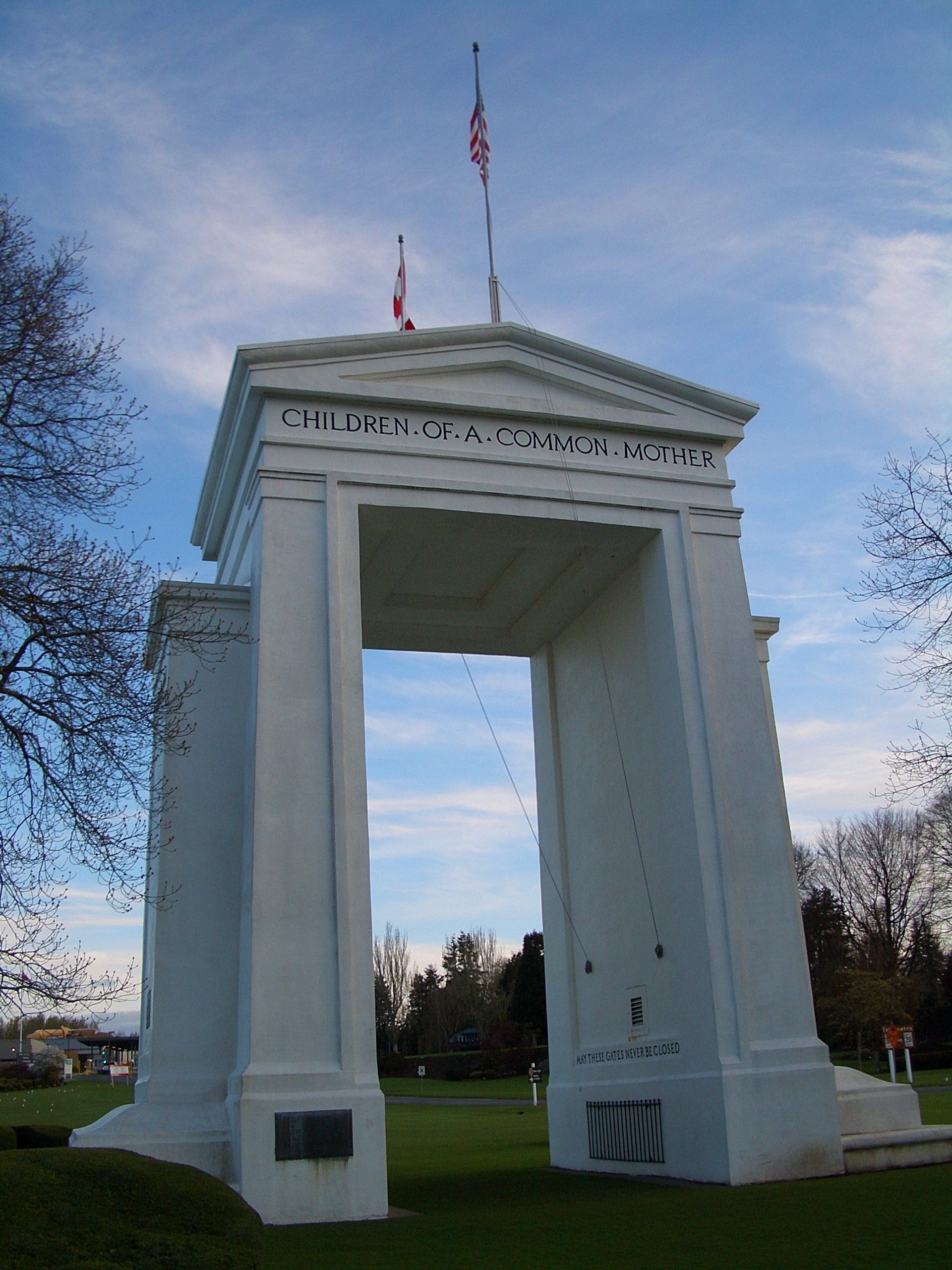 Peace Arch, looking into Canada